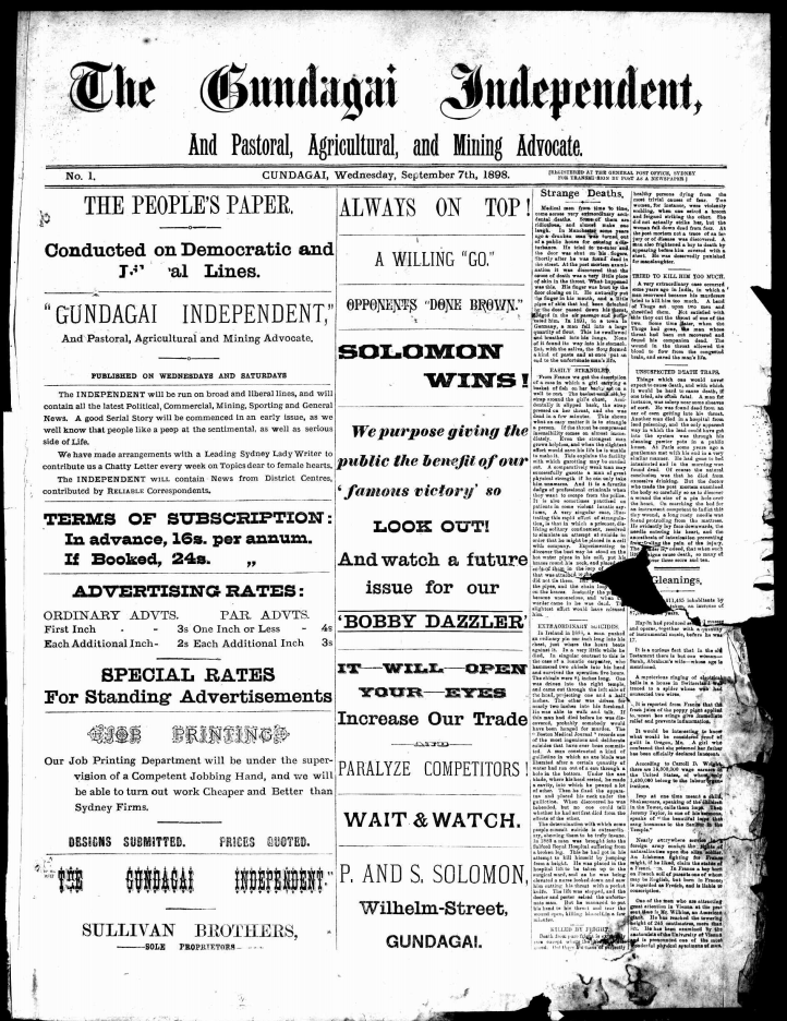 Front cover of the Gundagai Independent and Pastoral, Agricultural and Mining Advocate newspaper on 7 September 1898.